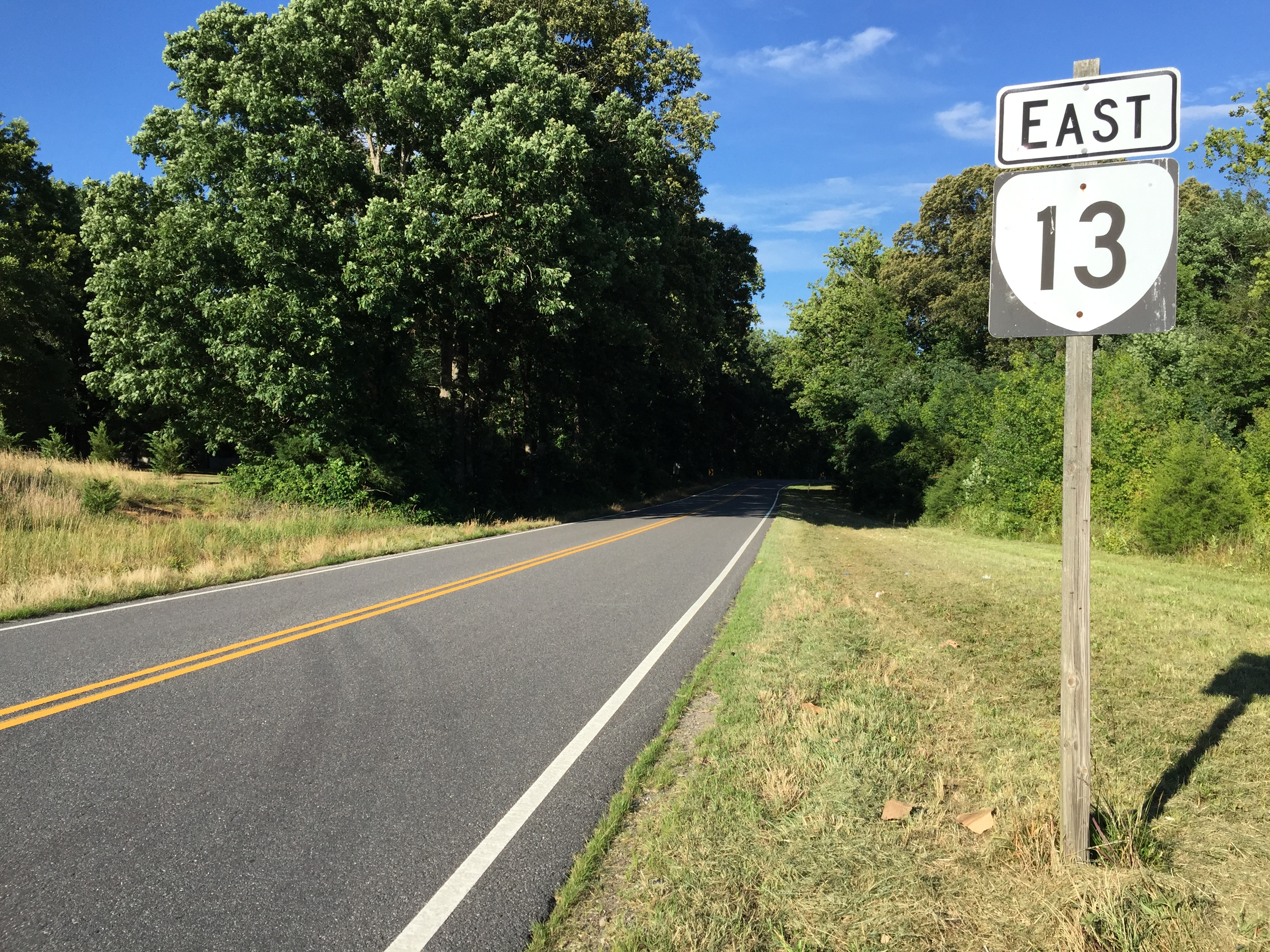 View east along Virginia State Route 13 (Old Buckingham Road) at Northfield Road (Virginia State Secondary Route 682) in Grays Siding, Cumberland County, Virginia